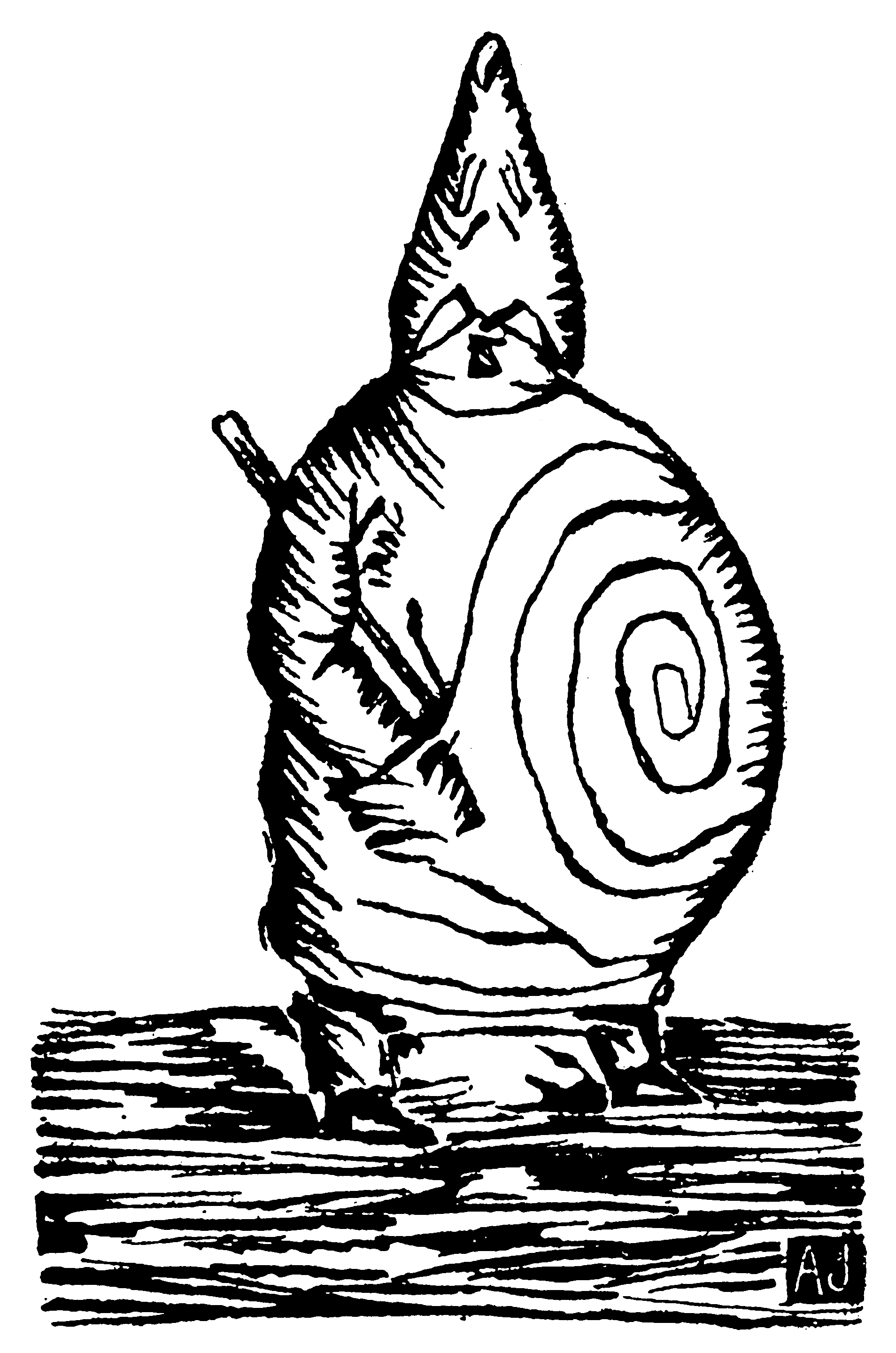 Representation of Père Ubu by Alfred Jarry